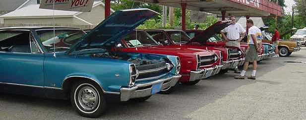 Marlin Auto Club meeting in Kenosha - some of the 1967 AMC Marlins on display - held at Andy's Drive In (located at: 2929 Roosevelt Rd., Kenosha, WI 53143-4641)